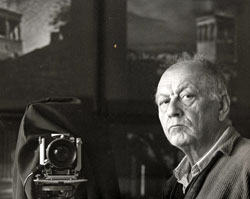 Rudolf Hartmetz